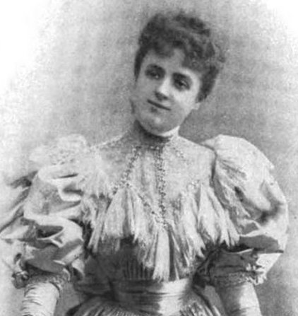 Jeanne Ludwig, from an 1896 publication. A young white woman wearing her hair in an updo, and a high-necked gown with very wide, round sleeves.